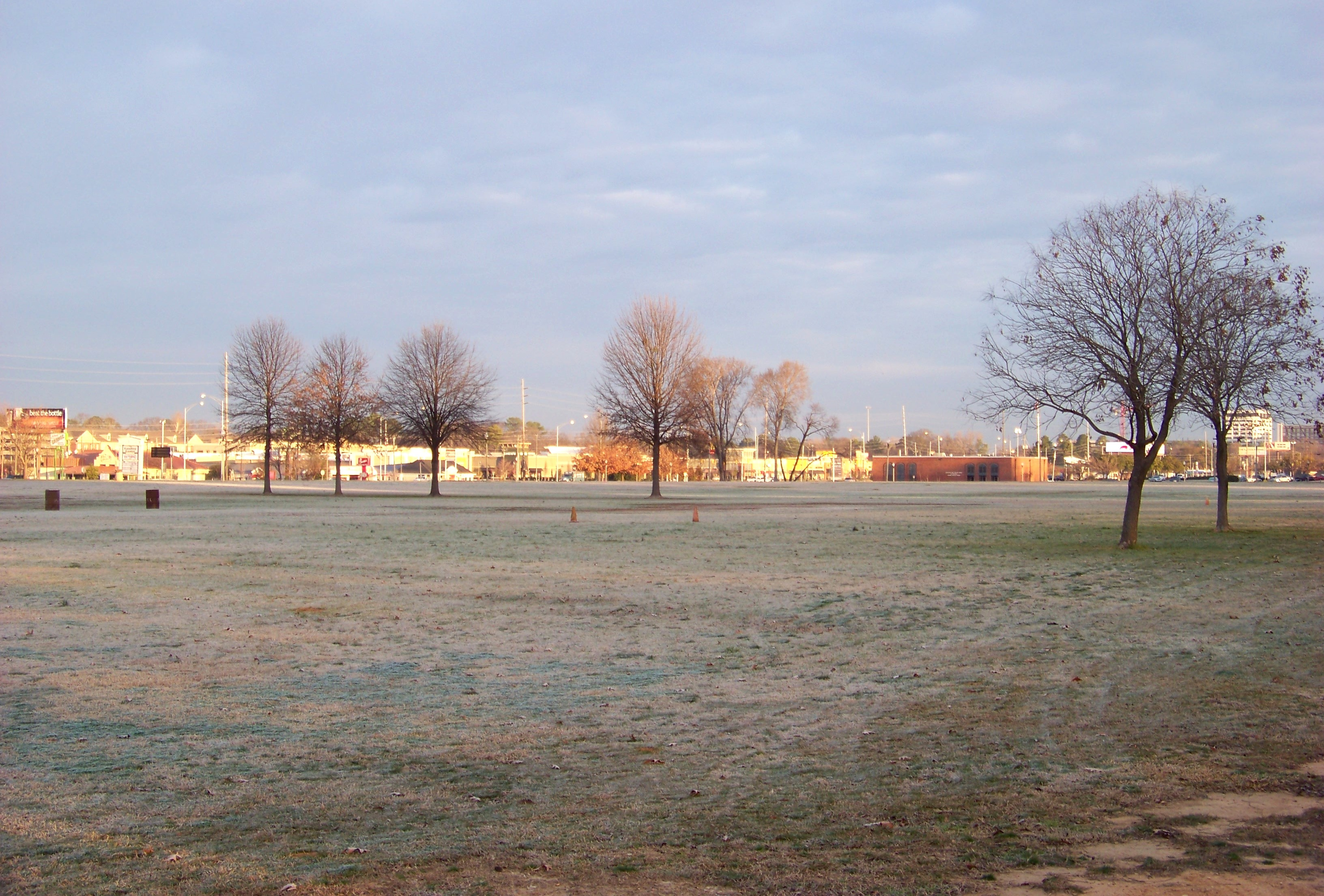 Snow Hinton Park